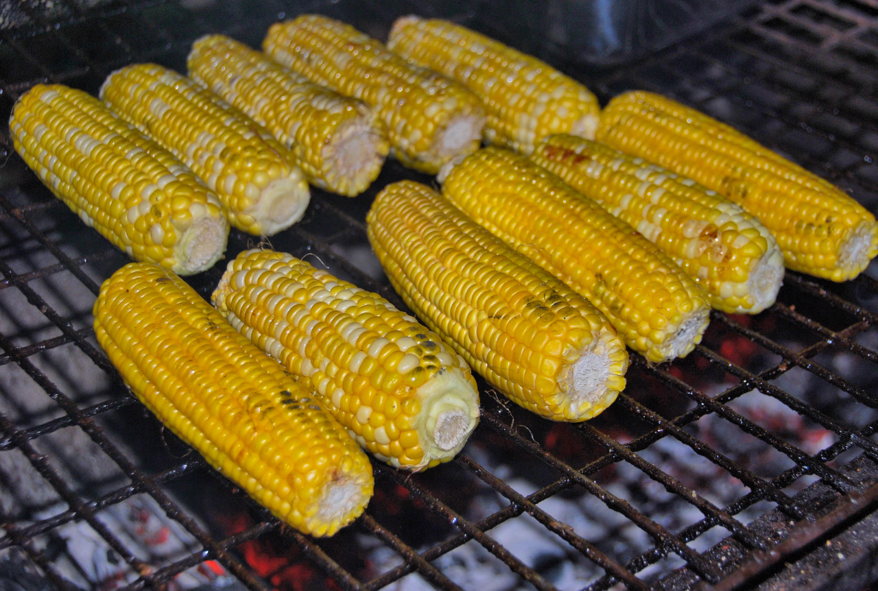 Corn on the cob (also known as mielies) cooked on an open fire called a braai This is an image of food from South Africa